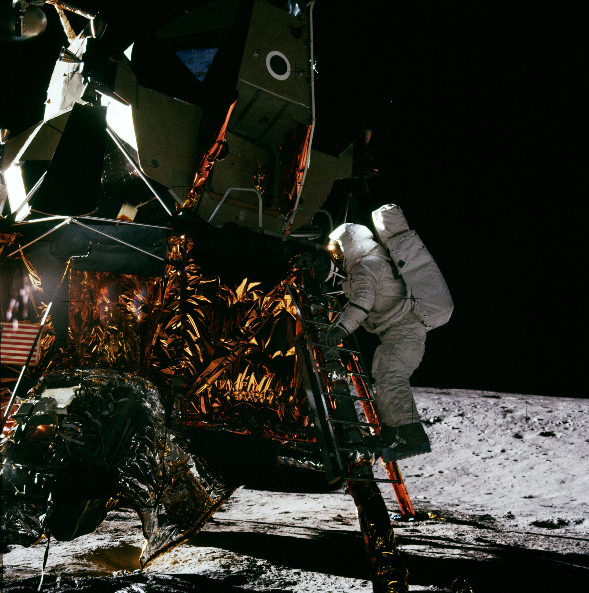 AS12-46-6728 (19 Nov. 1969) --- Astronaut Alan L. Bean, lunar module pilot for the Apollo 12 mission, is about to step off the ladder of the Lunar Module to join astronaut Charles Conrad Jr., mission commander, in extravehicular activity (EVA). Conrad and Bean descended in the Apollo 12 LM to explore the moon while astronaut Richard F. Gordon Jr., command module pilot, remained with the Command and Service Modules in lunar orbit.